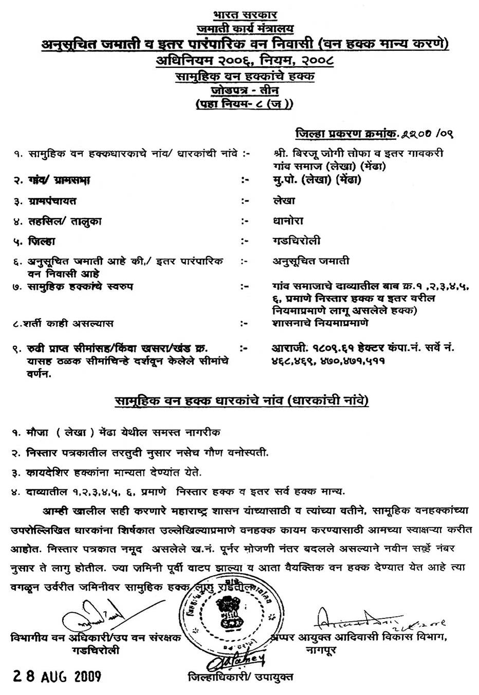 Community forest resources record of rights